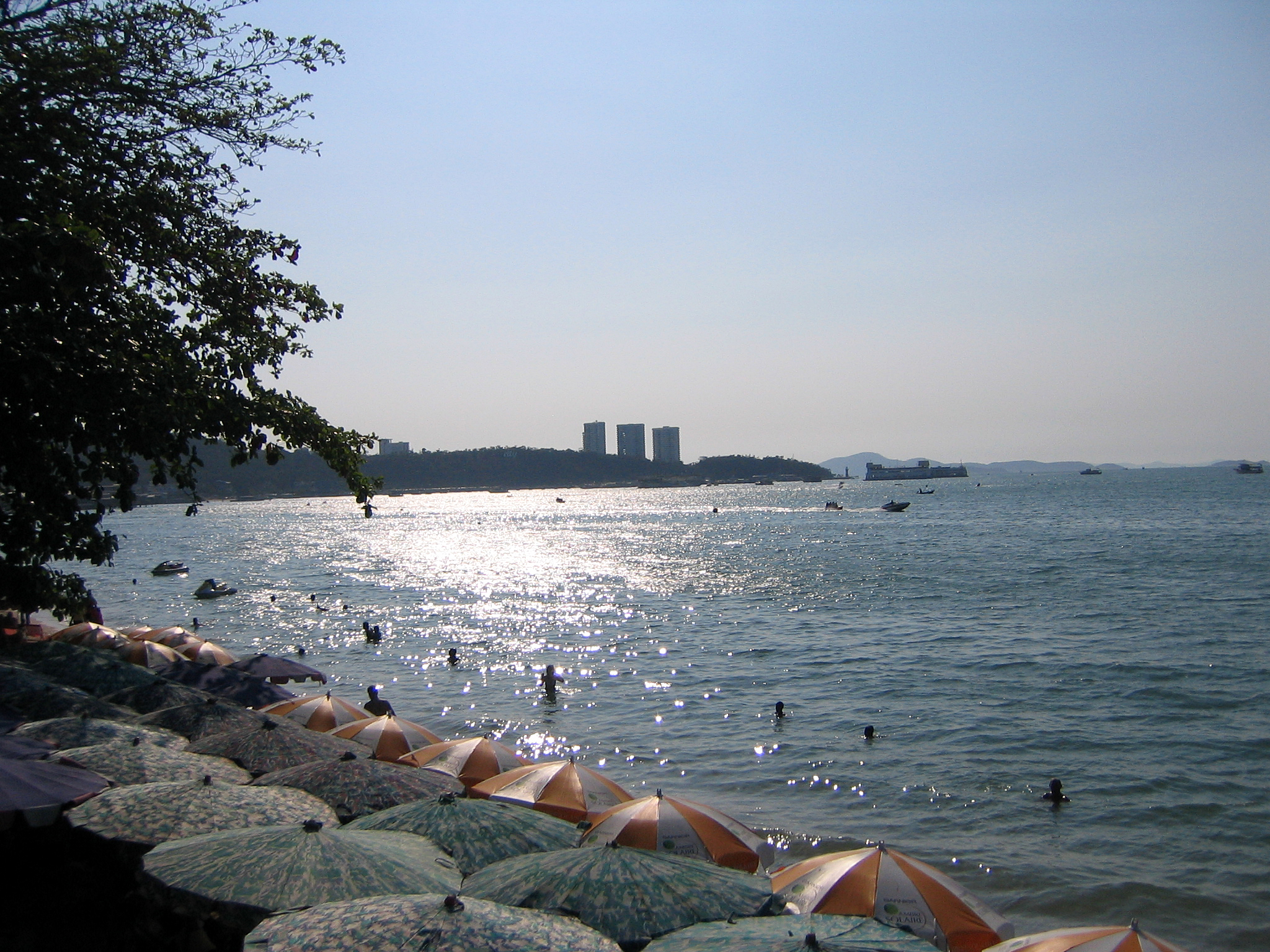 Pattaya Beach, Thailand. A view to the south towards Bali Hai Pier and Jomthien Beach.